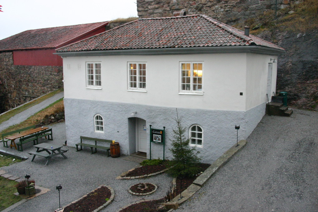 Fredriksten festning, Halden